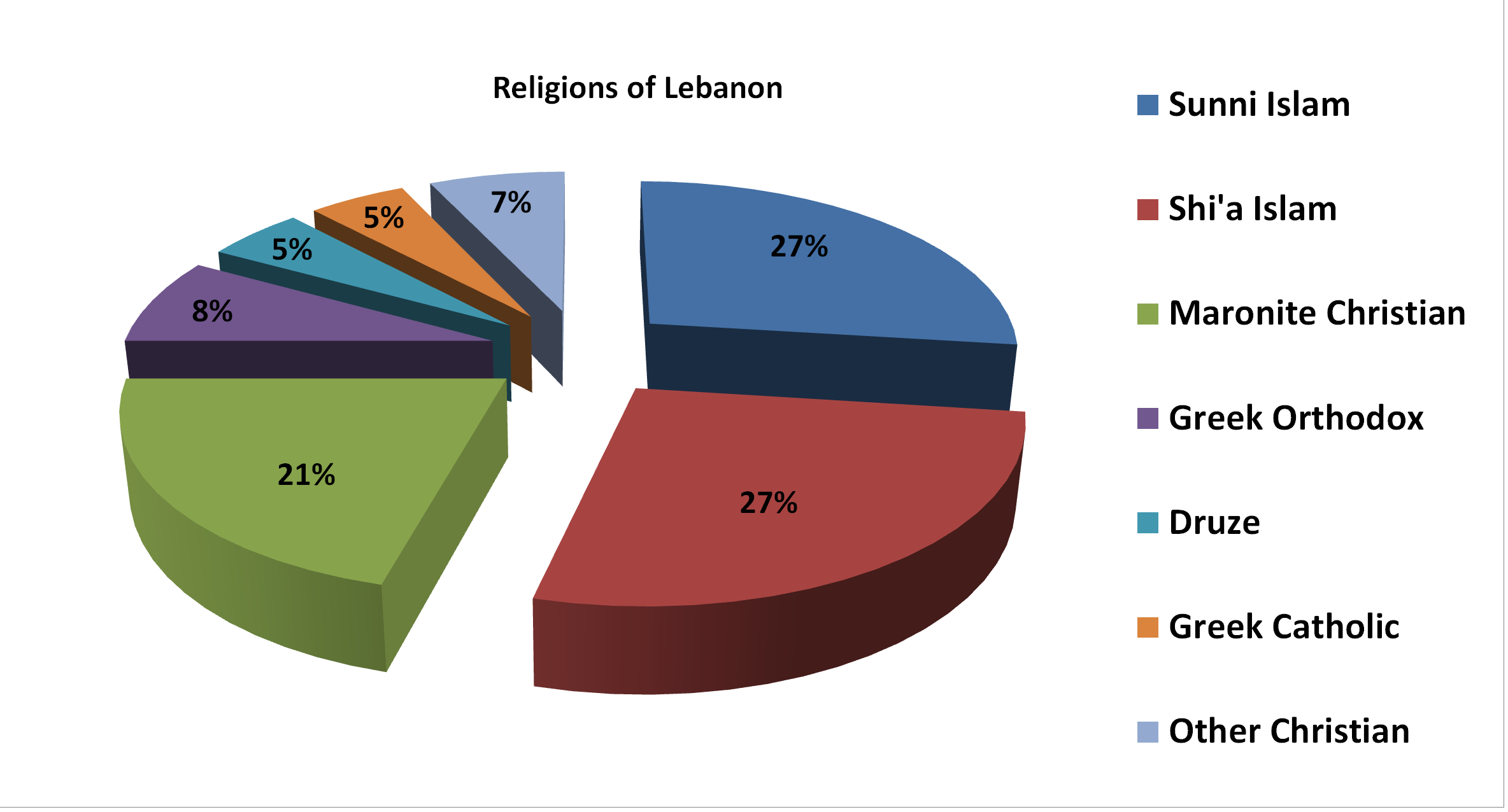 This graph shows a breakdown of the various religious groups in Lebanon. Information regarding smaller groups, such as: Sufis, Alawites, Armenian Apostolic, Assyrian Church of the East, Syriac Orthodox, Chaldean Catholic, Syrian Catholic, is not included but can be found at